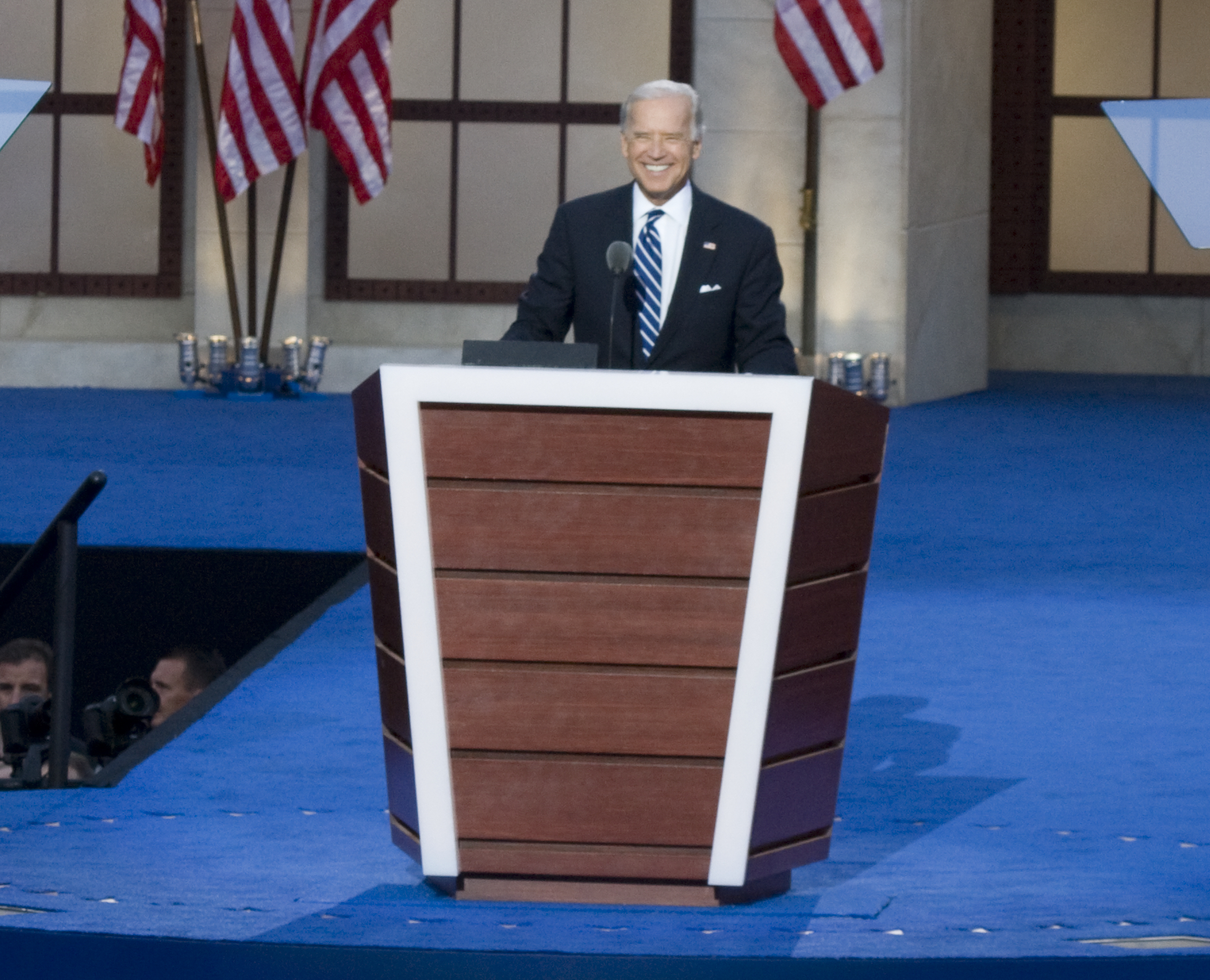 Joe Biden speaks at the 2008 DNC